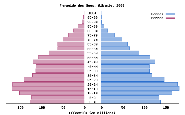 Population pyramid of Albania, 2009